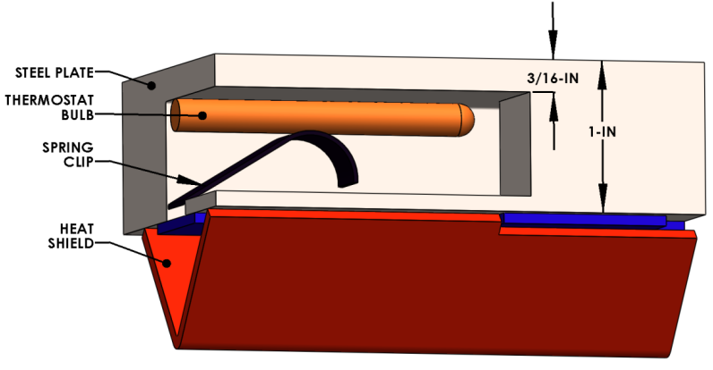 3D Rendering of common thermostat mounting technique - embedded